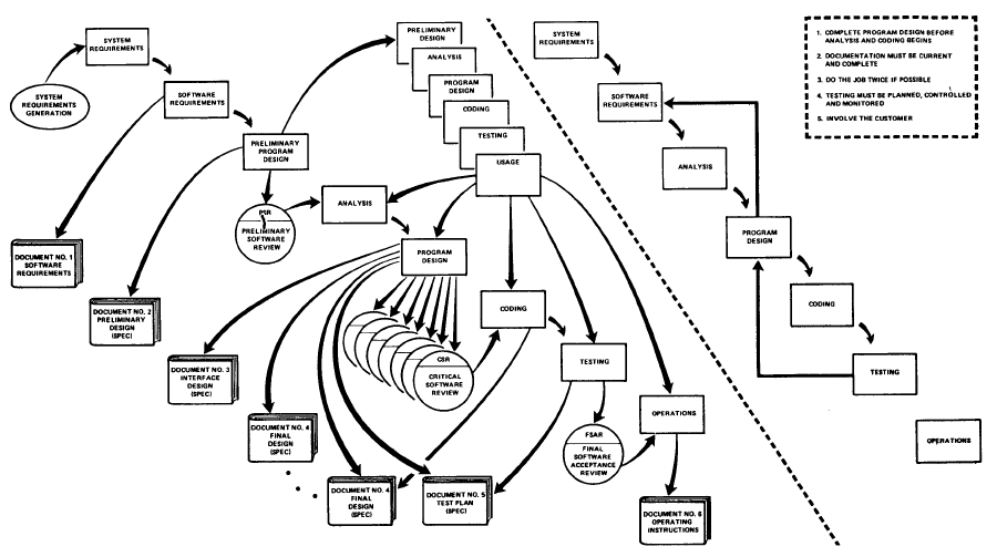 Managing the Development of Large Software Systems, Figure 10: Summary